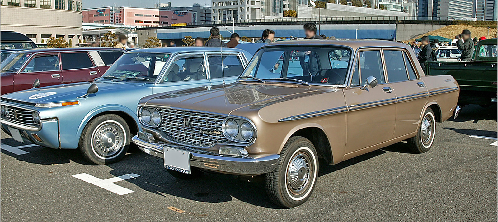 Toyopet Crown 1900 with Toyogride. ( 1963 - 1965, RS41 )